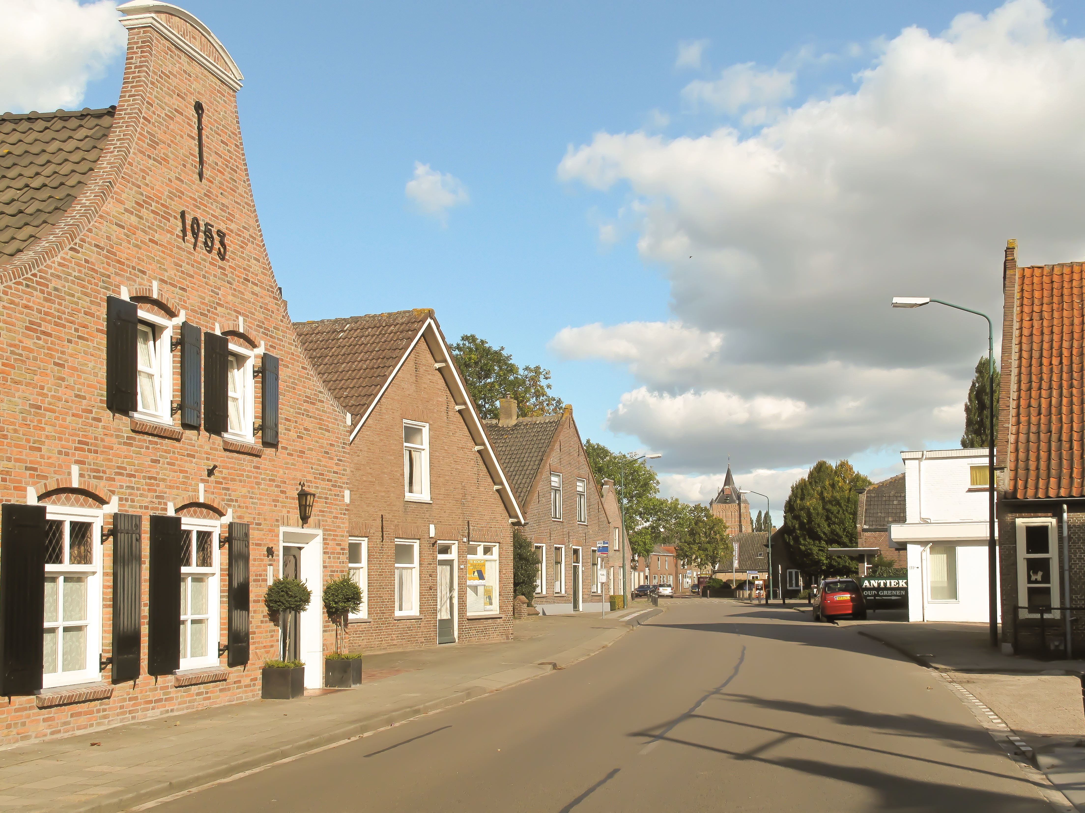 Sprang Capelle, view to a street:de Van der Duinstraat